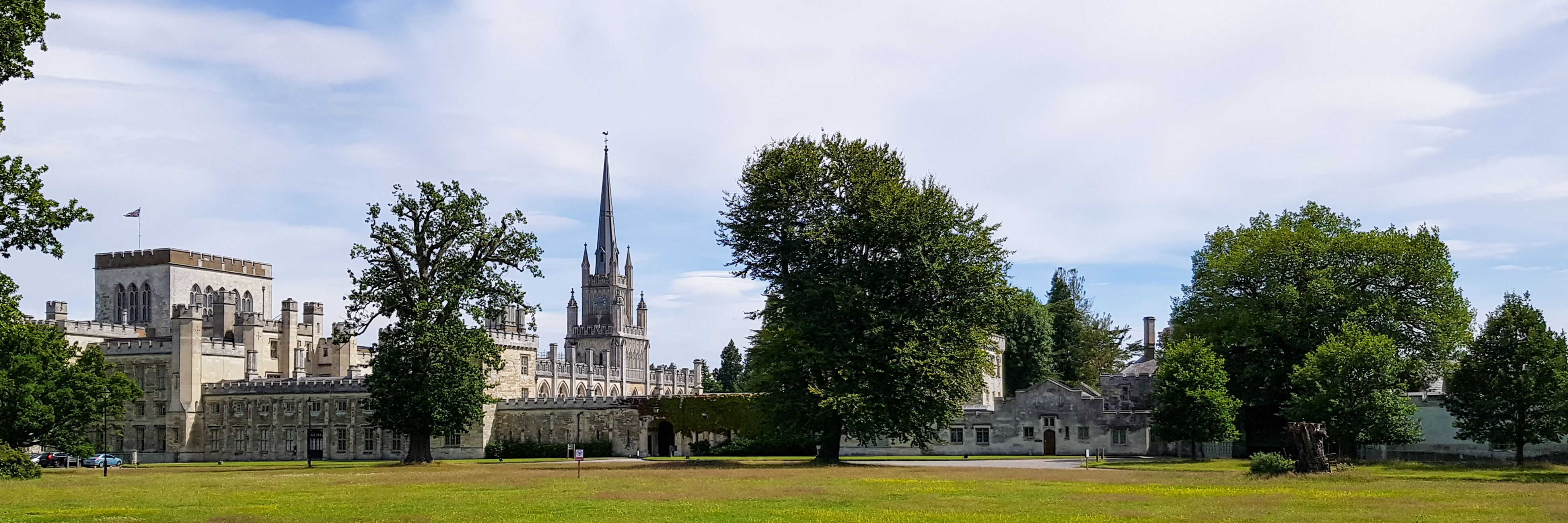 Ashridge